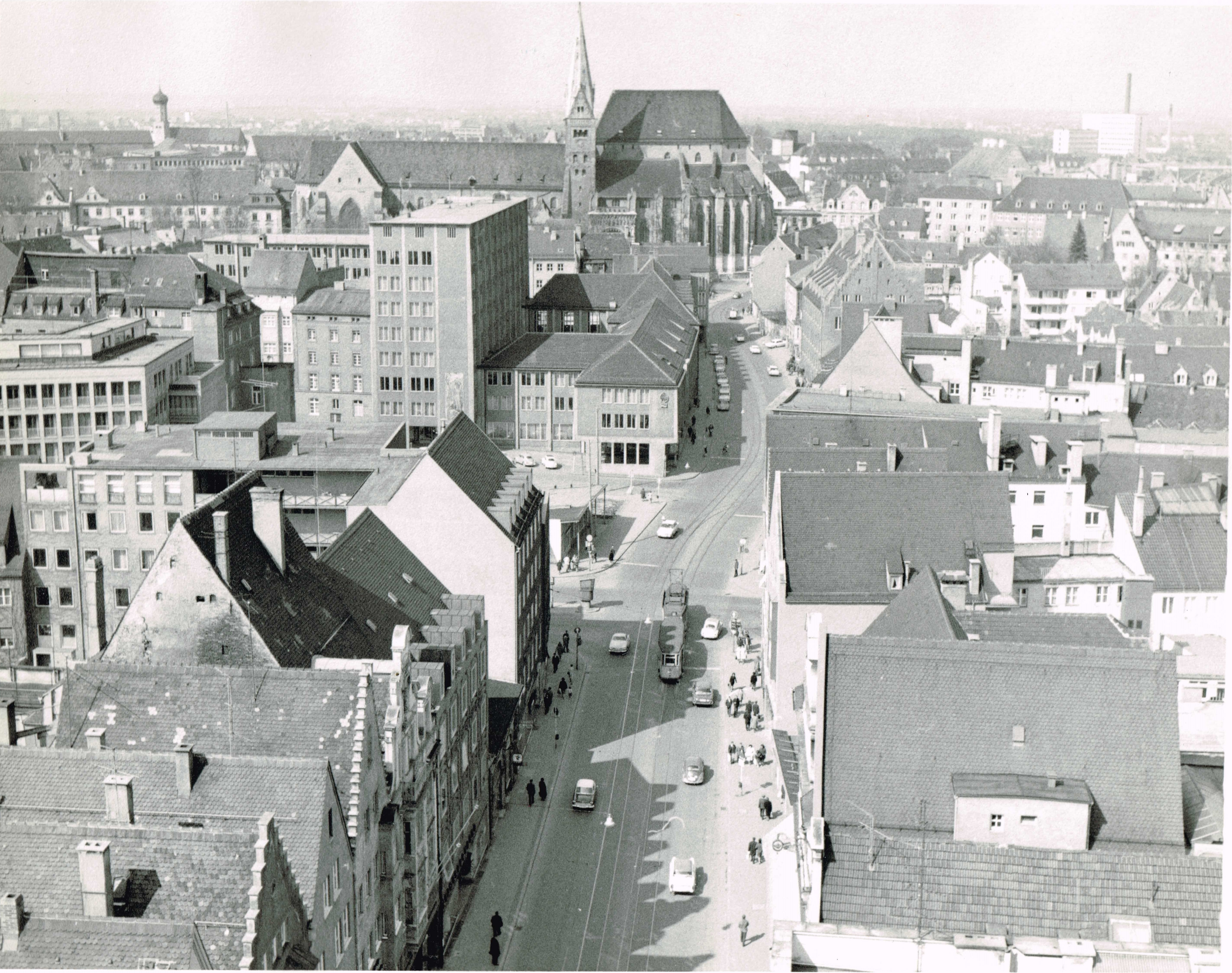 April 1967 - Augsburg - St. Maria Cathedral